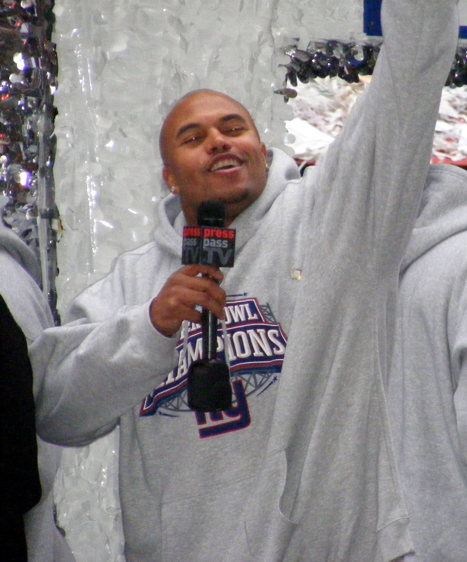 Manhattan - New York Giants linebacker Antonio Pierce at the Giants parade in Manhattan the Tuesday following the Giants victory in Super Bowl XLII.